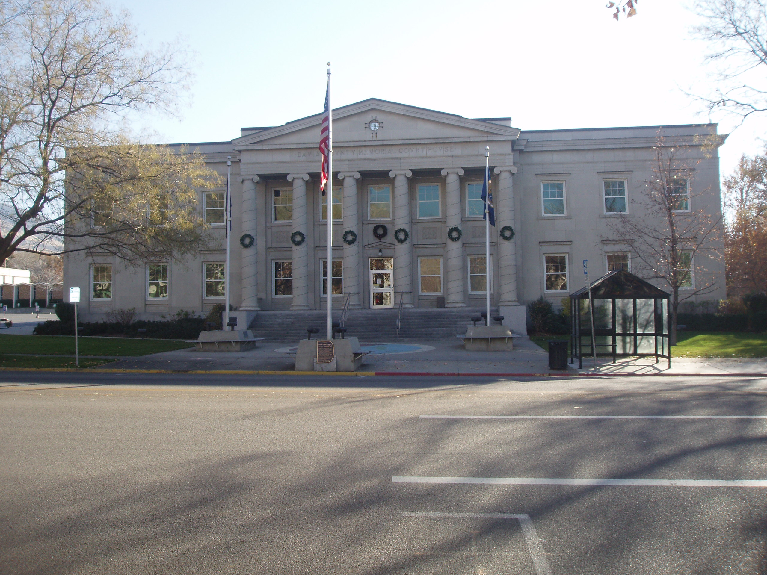 Davis County Memorial Courthouse, Farmington, Utah, United States.